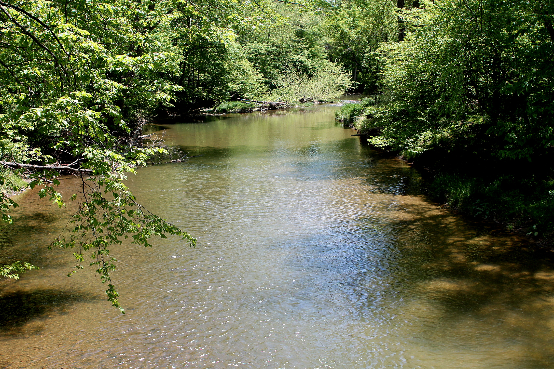 Green Creek in springtime